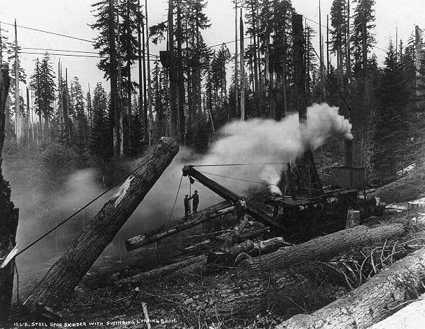 Steel spar skidder with swinging loading broom